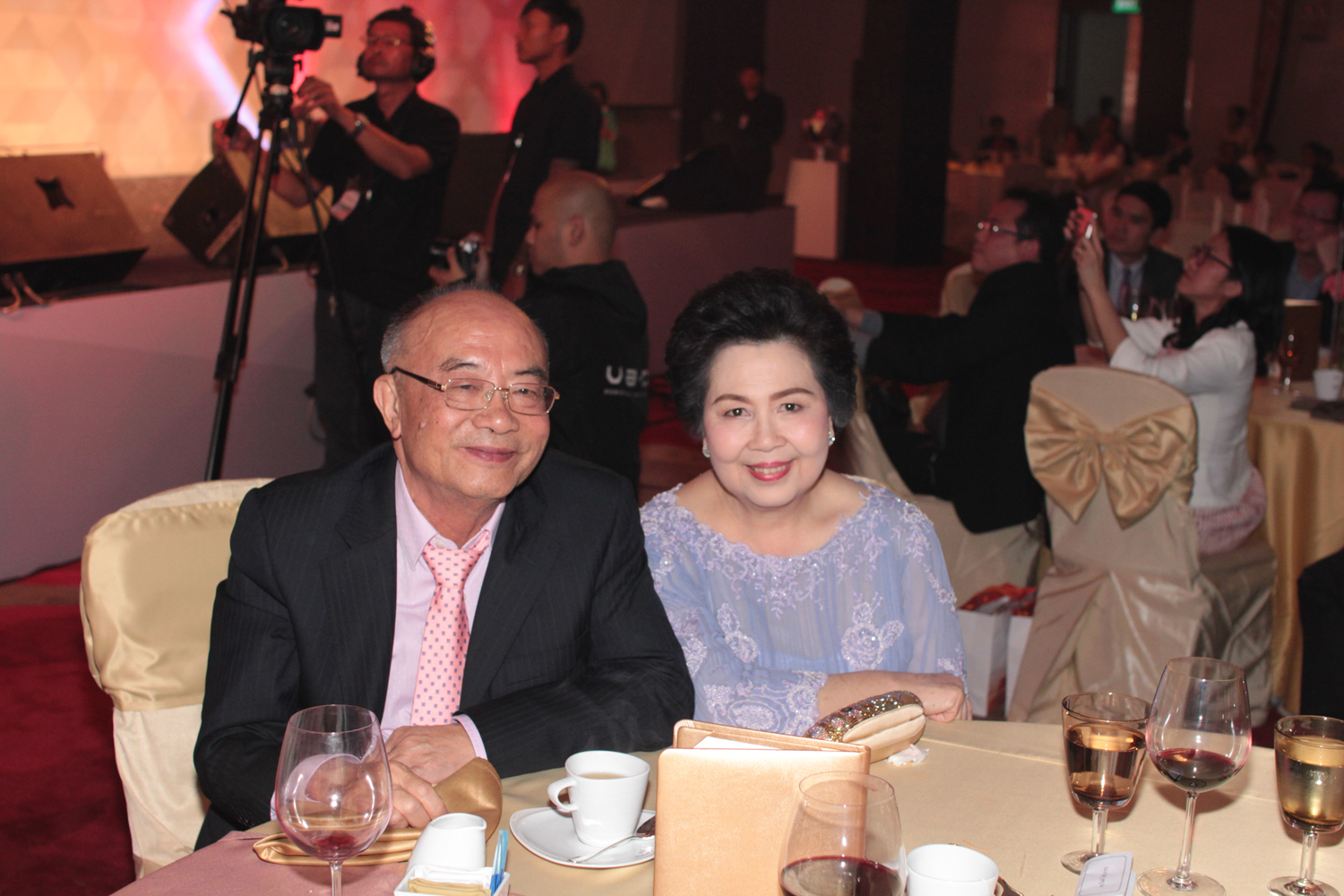 Suvit Vong